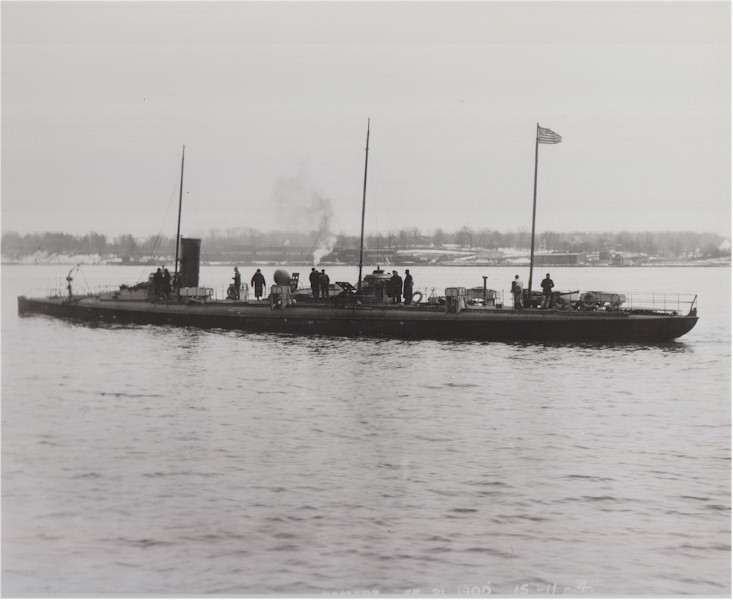 NHC photo 63737. February 21 1900., location unknown.